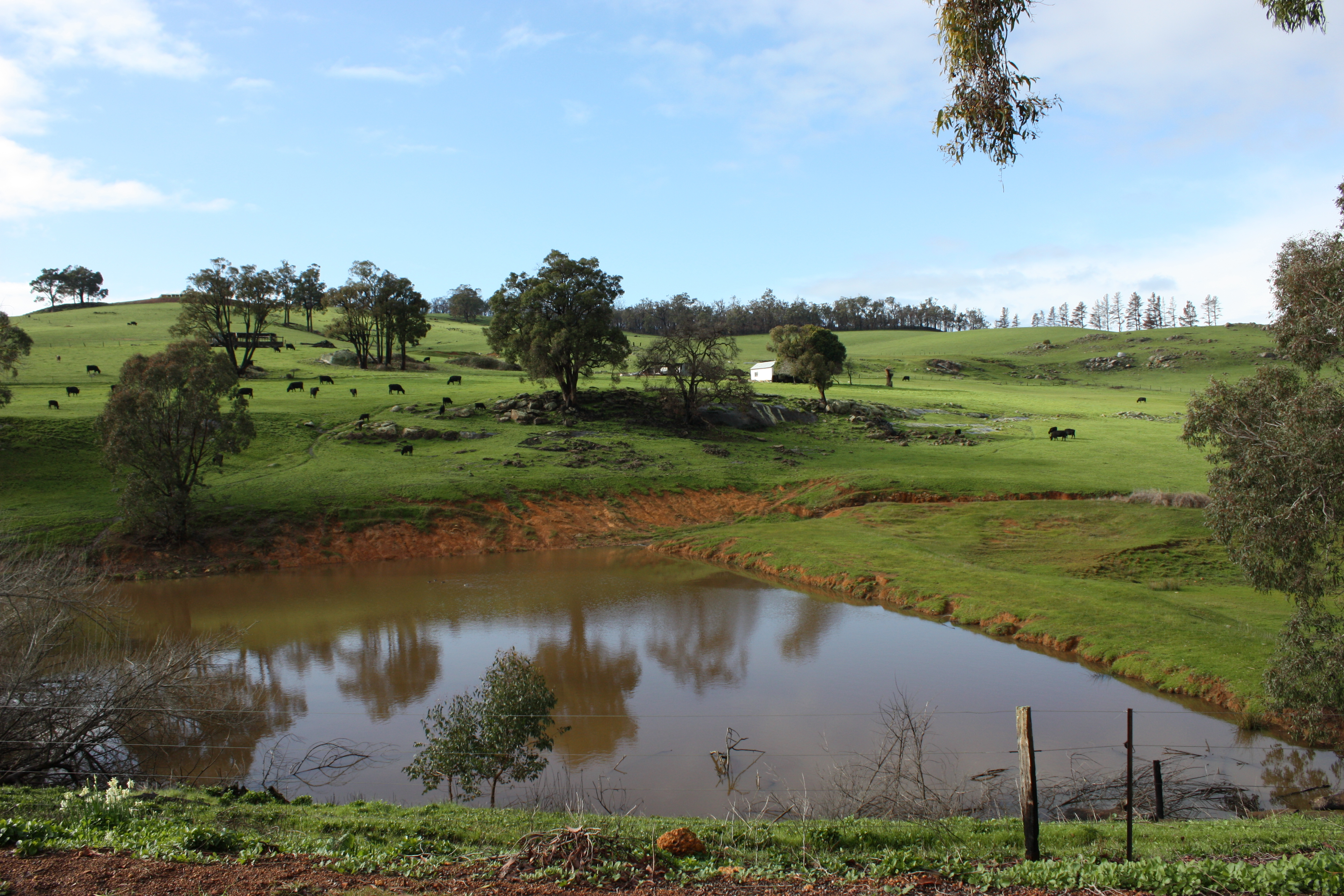 Typical rural landscape in the vicinity of Bridgetown, Western Australia. This photo was taken from the Hester Cascades Road, about ten kilometres north of Bridgetown, looking roughly south (back towards Bridgetown).